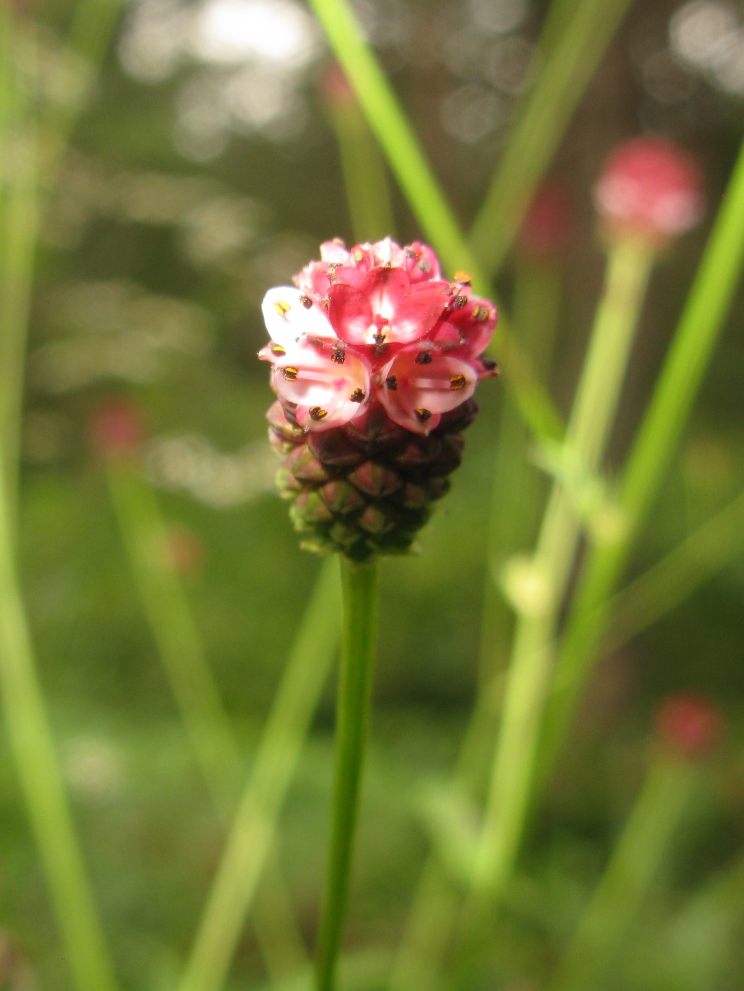 Sanguisorba officinalis, Fukushima city, Japan